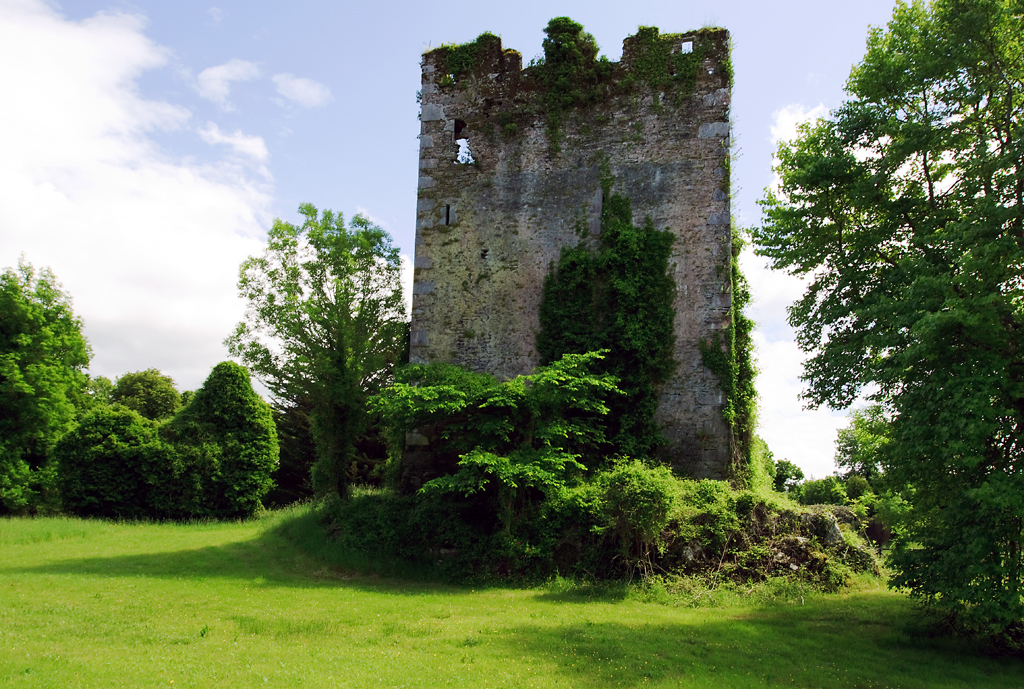 Castles of Munster: Dunkerron, Kerry (2)